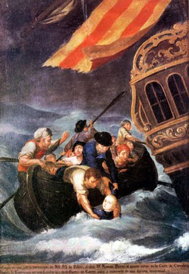 "The Rescue of Don Ramón Power y Giralt", 1790 painting by Jose Campeche